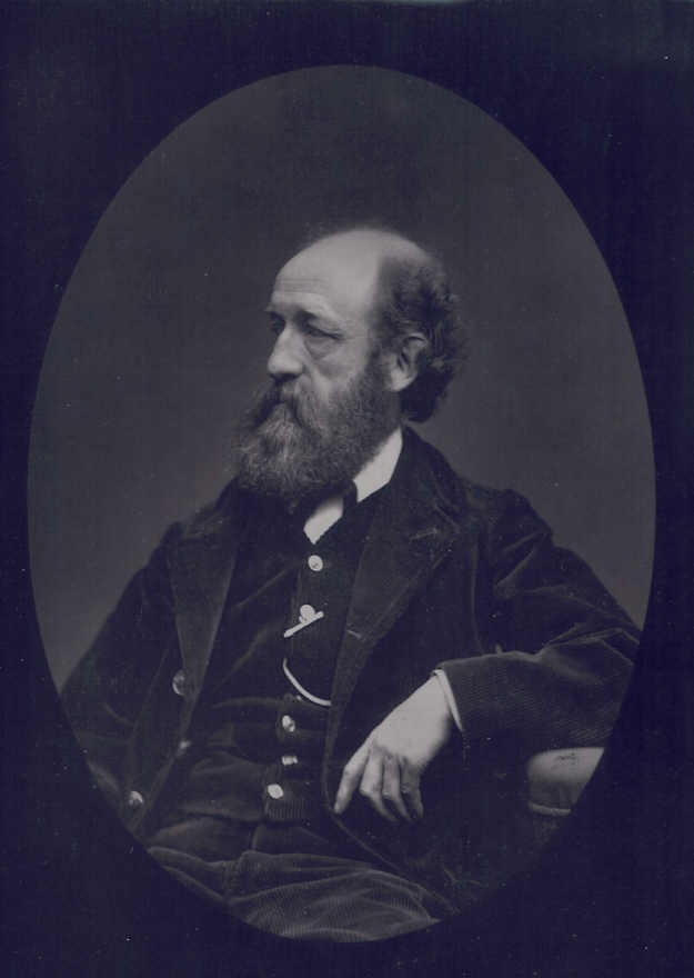 Portrait photograph (woodbury type, 22.5 x 18.5 cm) of Edmond Morin